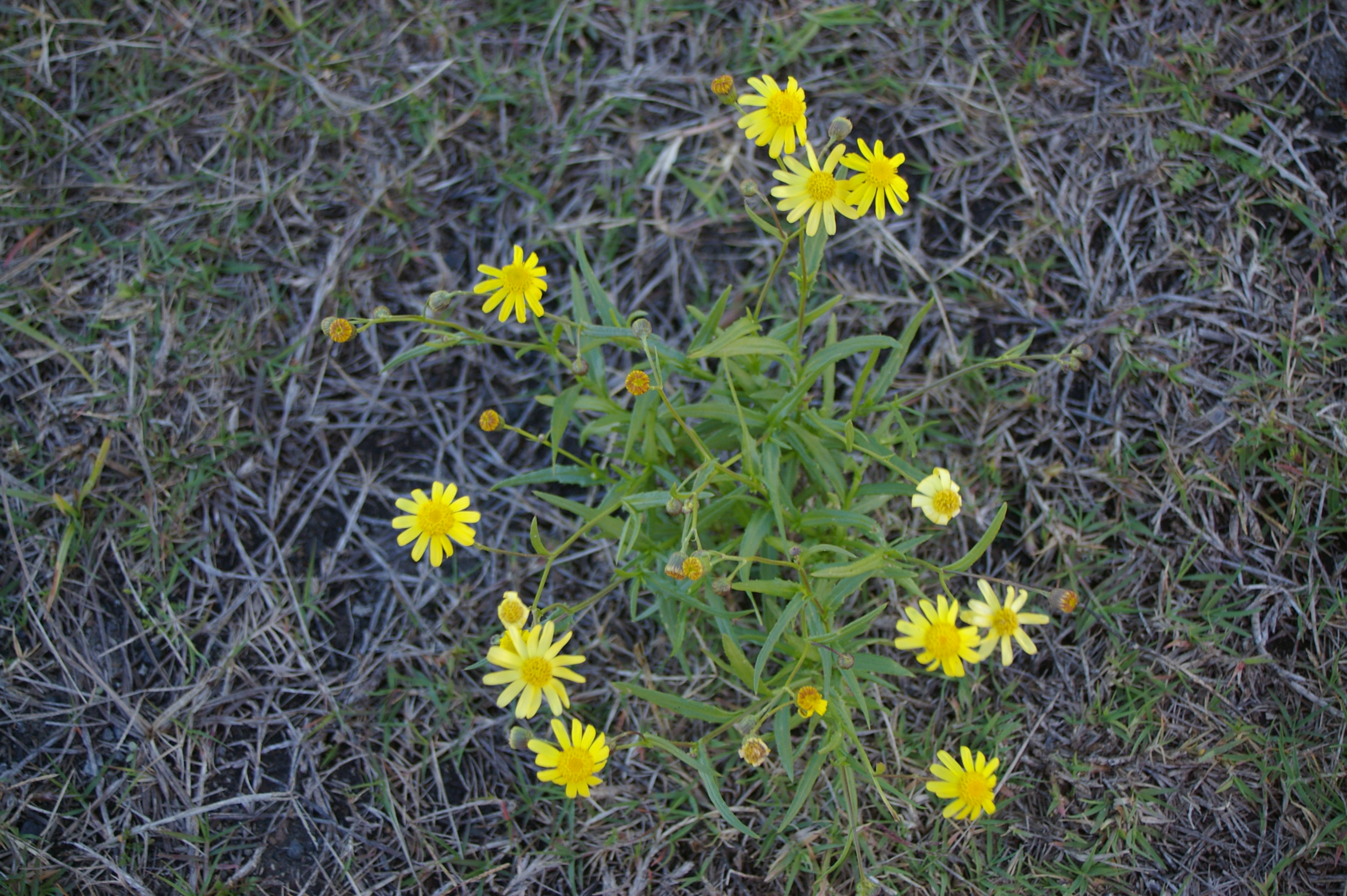 Senecio madagascariensis , fireweed, is a noxious daisy found on the cricket ovals and mown areas of 7th Brigade Park. It is an introduced species that is potentially lethal to livestock.